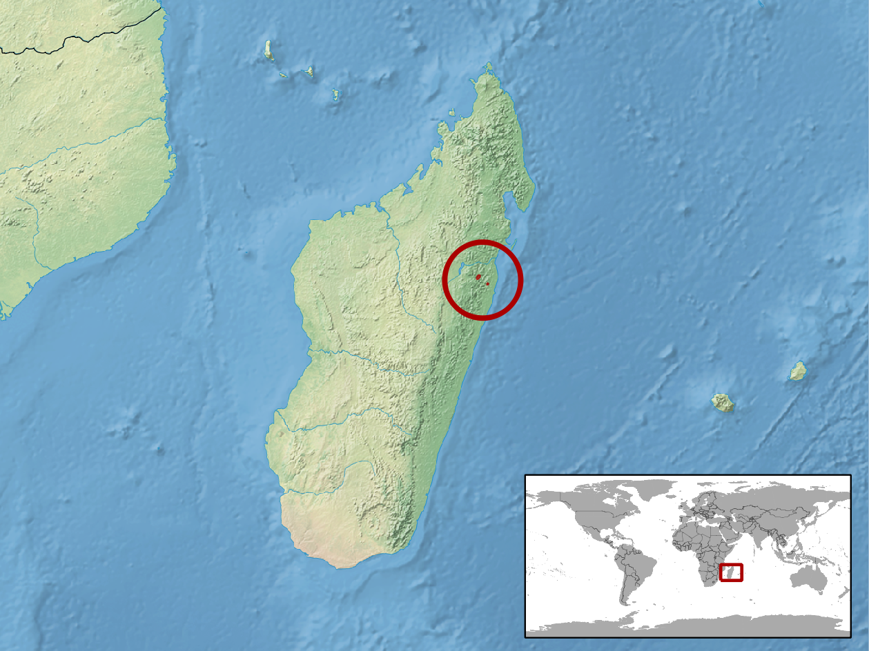 geographic distribution of Paroedura masobe (Native: Madagascar)